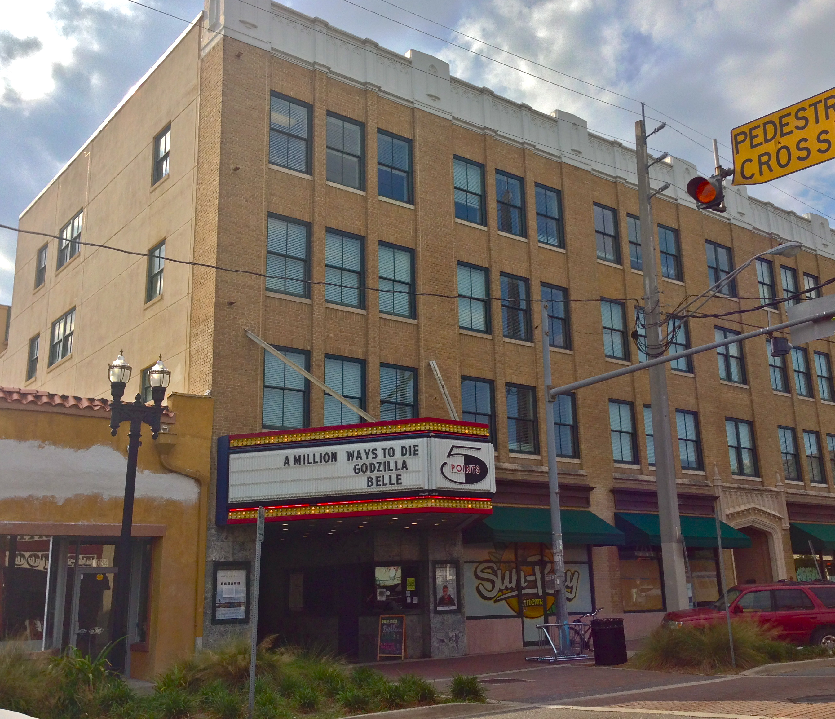 Sun-Ray Cinema